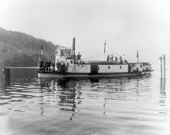 Marion sternwheeler, which operated in several areas in eastern British Columbia.